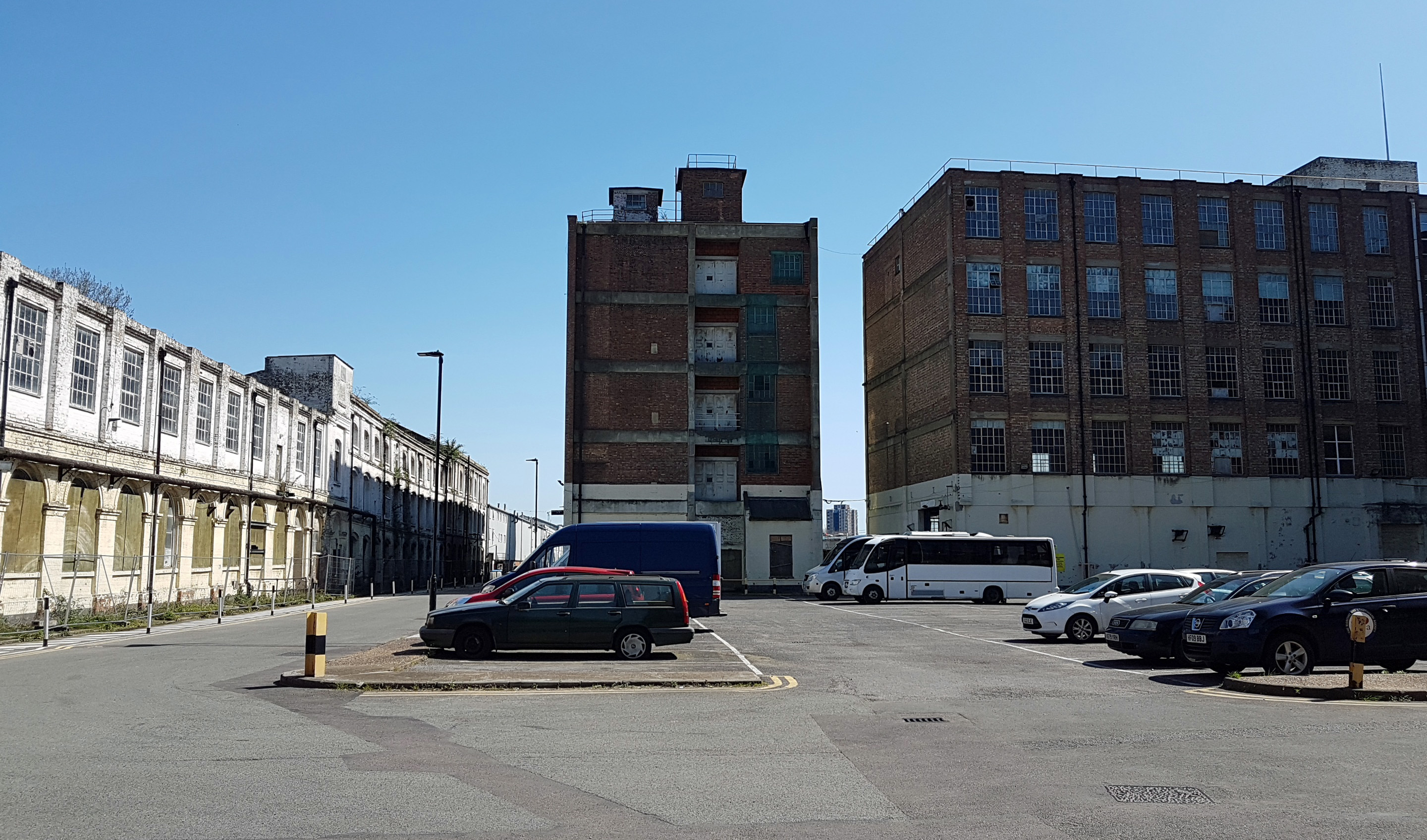 View of industrial buildings along Bowater Road in Woolwich, London, UK. On the left the oldest surviving range of Siemens Brothers' cable works in Woolwich. The 2-storey section on the far left dates from 1871, the central section from 1873 and the last 8 bays are from 1894. The 5-storey brick buildings are from 1926 (centre) and 1942 (right)